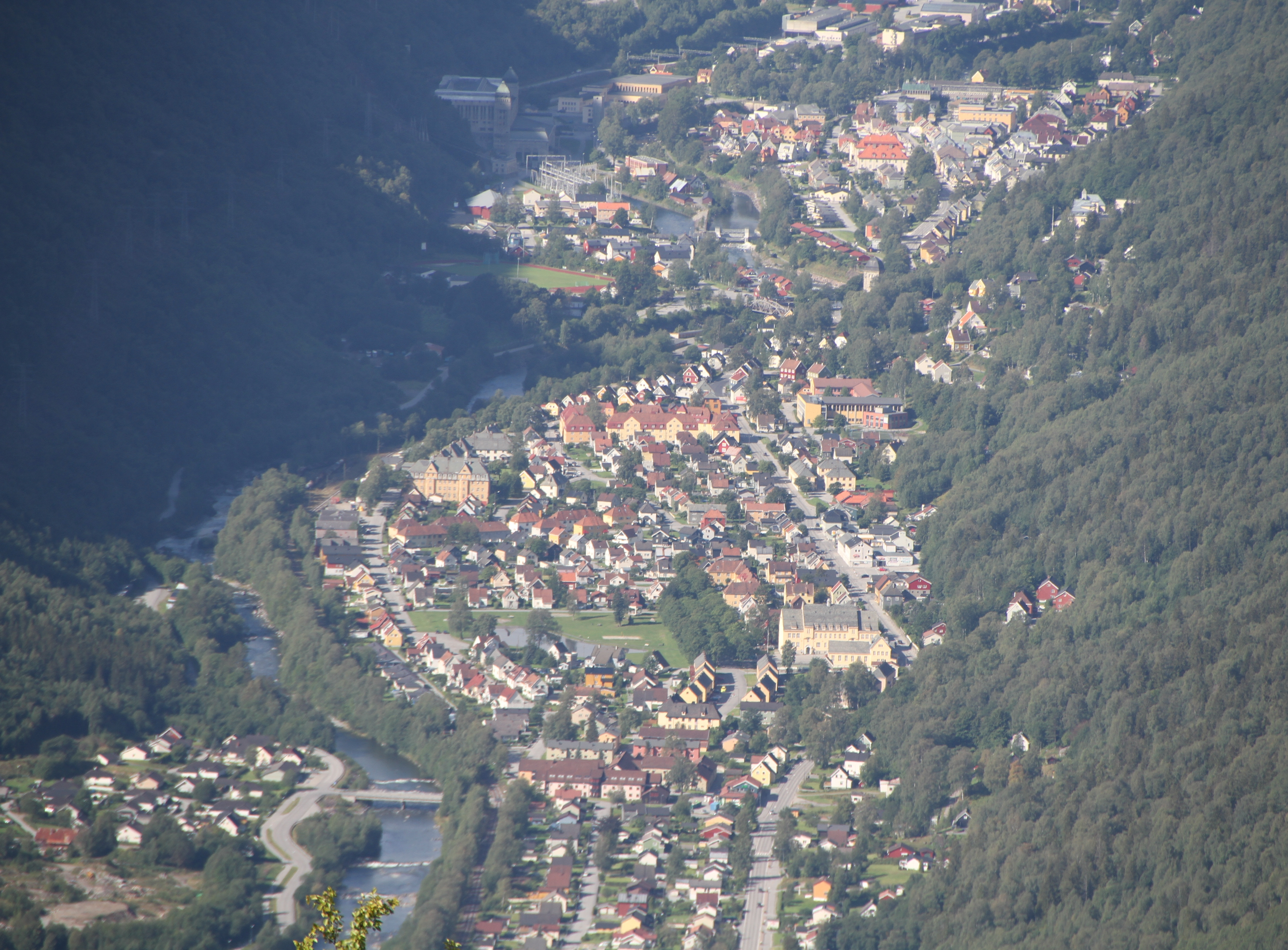 Panorama over Rjukan city (Tinn municipality) in the county of Telemark, Norway